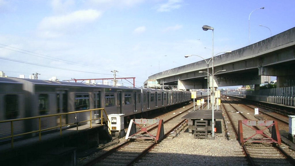 Picture of surface-metropolitan train on the East Side in the city of São Paulo. Photograph taken by me (Gabriel Fernandes). Another version can be found at my Flickr page.